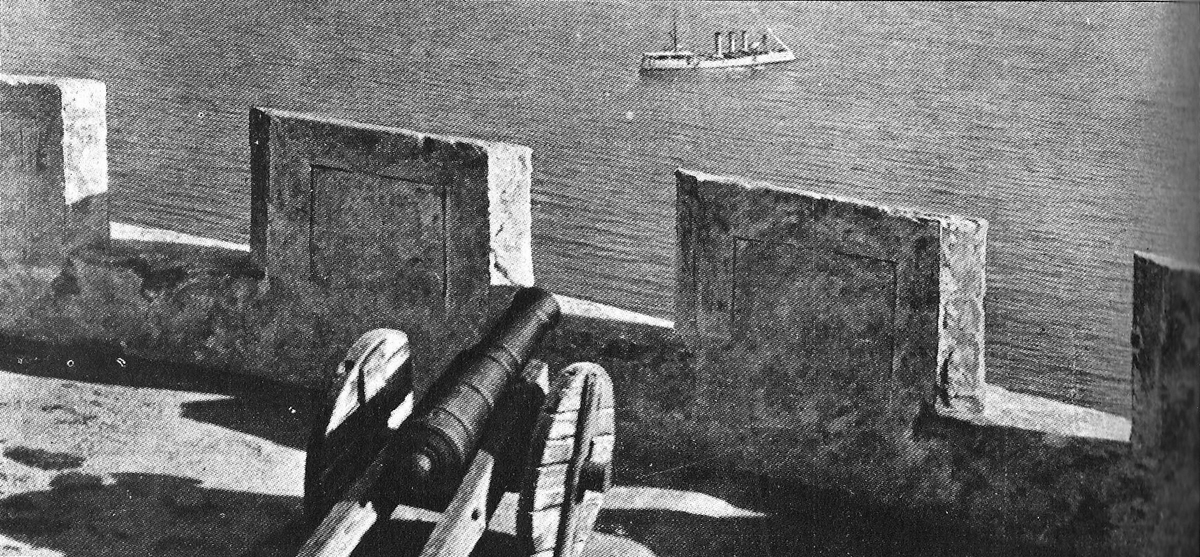 Imperial German cruiser "Berlin" in the bay of Agadir, Morocco